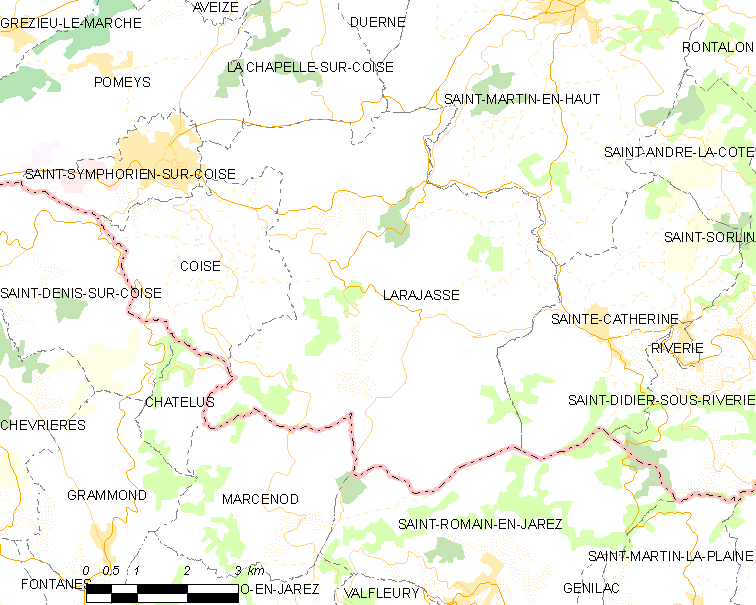 Map of French municipality